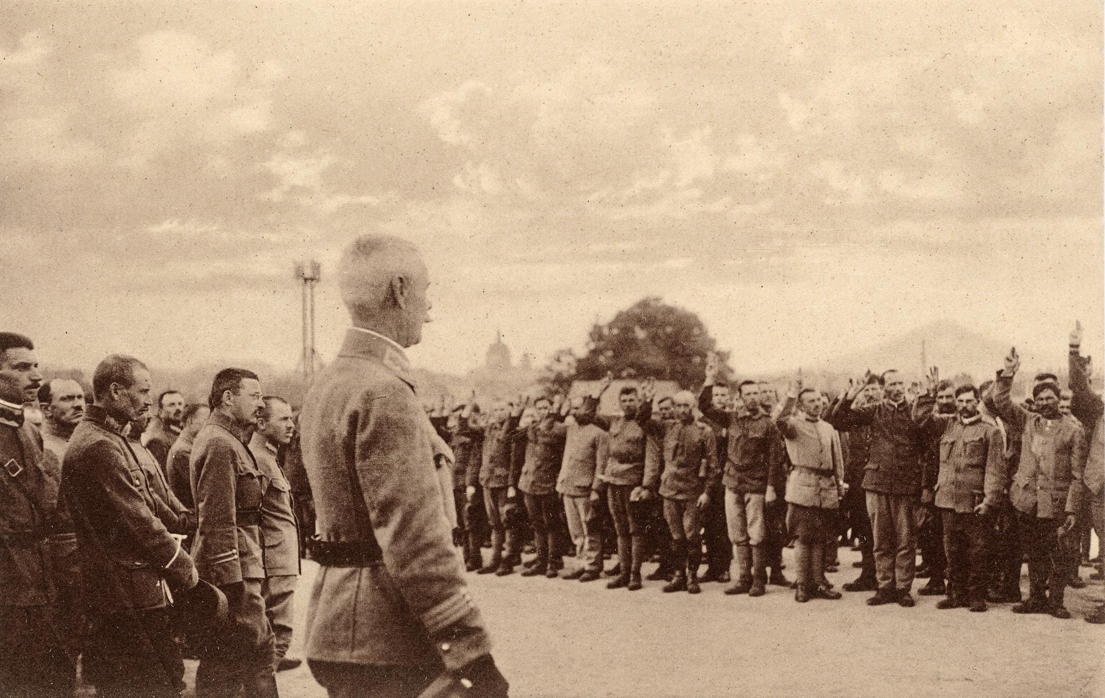 POWs of ukrainian nationality of former Austro-Hungarian Imperial army released from Serbian captivity swear the oath of allegiance to Ukraine on August 3, 1919.